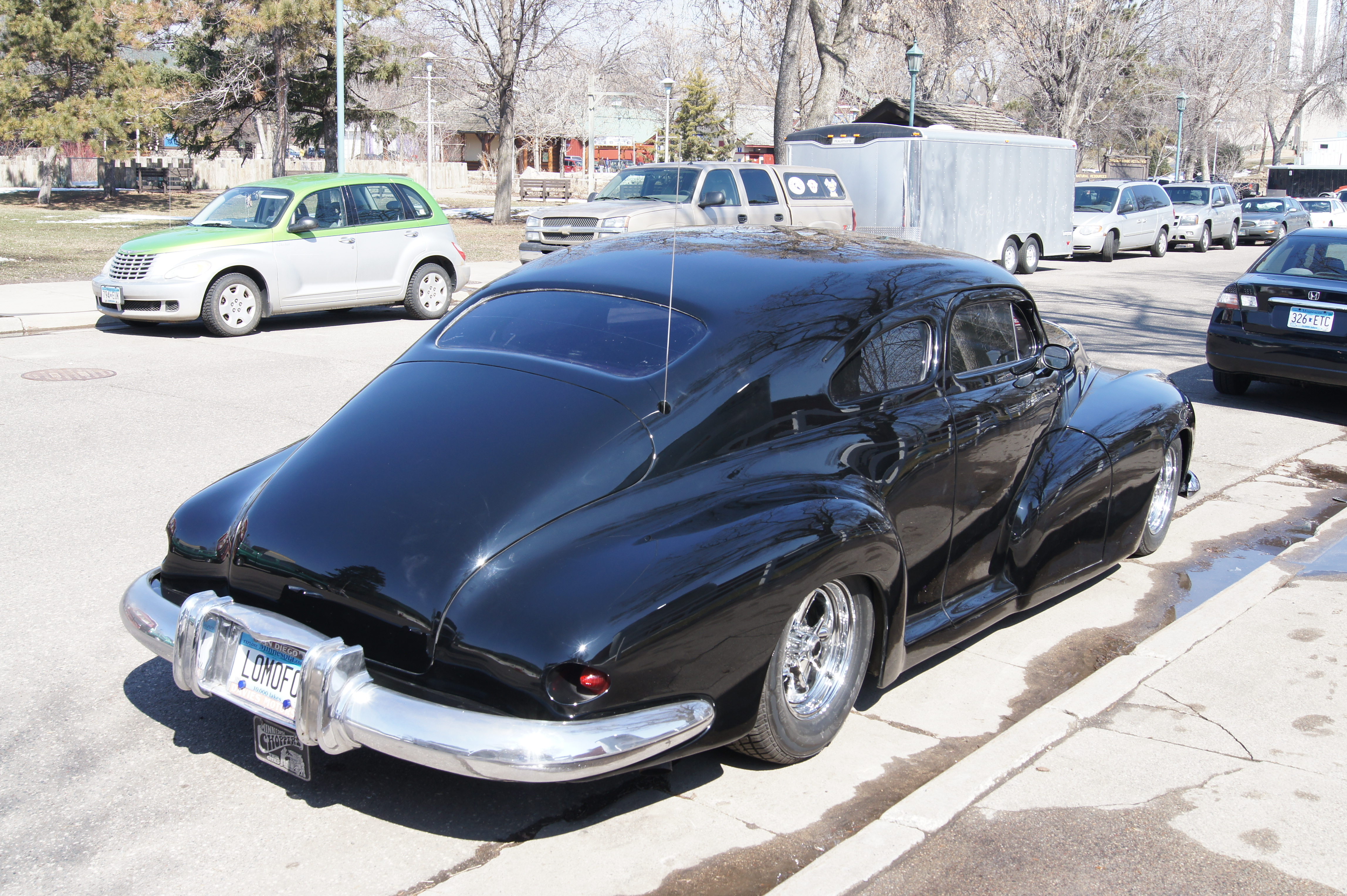 58th Annual Gopher State Timing Association (GTSA) Car Show Minnesota State Fairgrounds May 3,2014